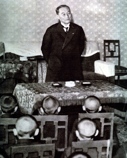 Japanese Prime Minister Mitsumasa Yonai (1880–1948, in office January–July 1940) comforts children from his home town who lost their fahters in service.